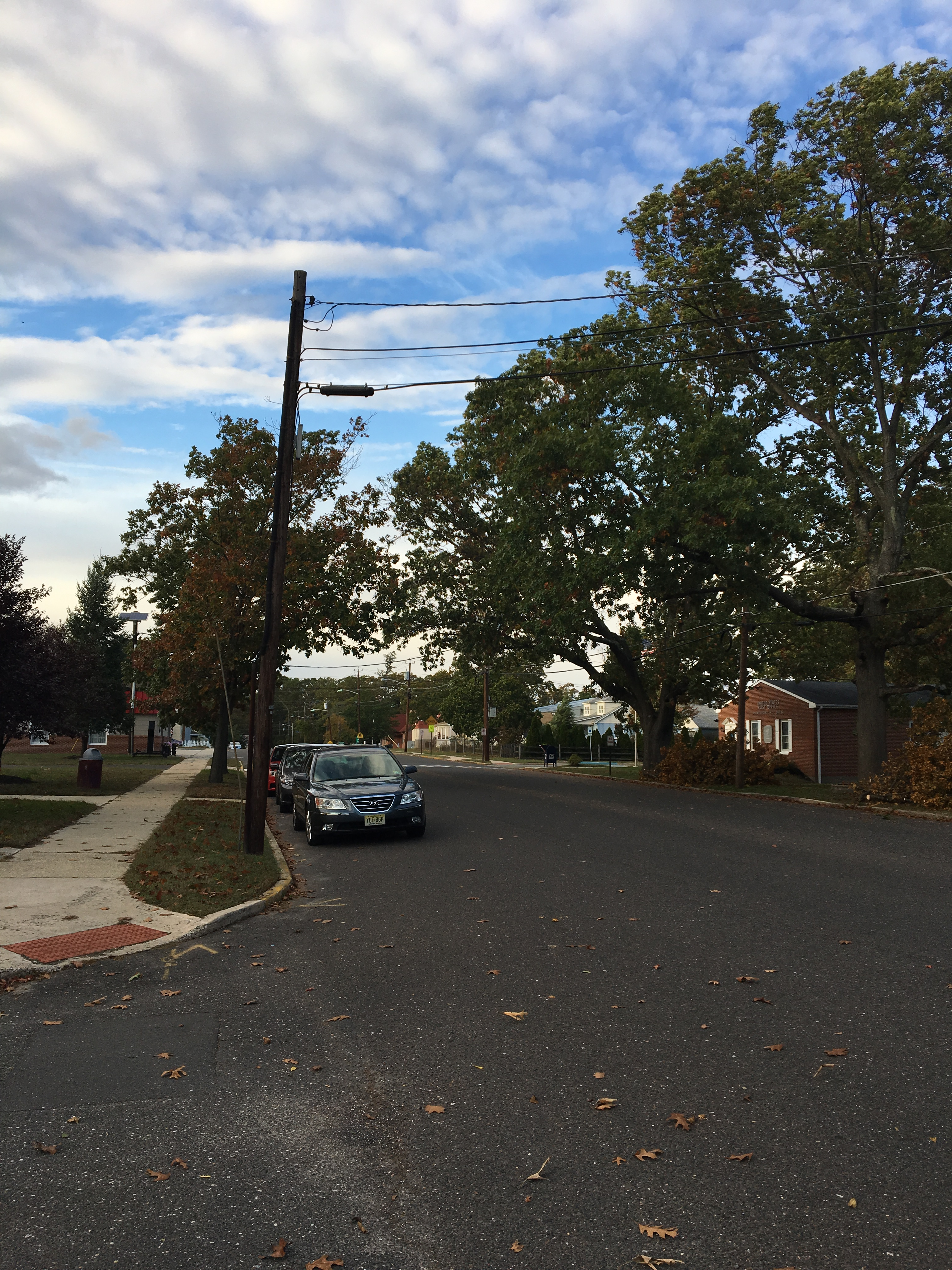 Main Street of Hainesport, NJ